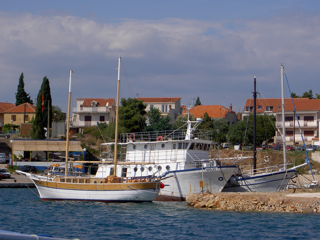 Brodarica, picture taken from the ferry by Sanja Vukelja